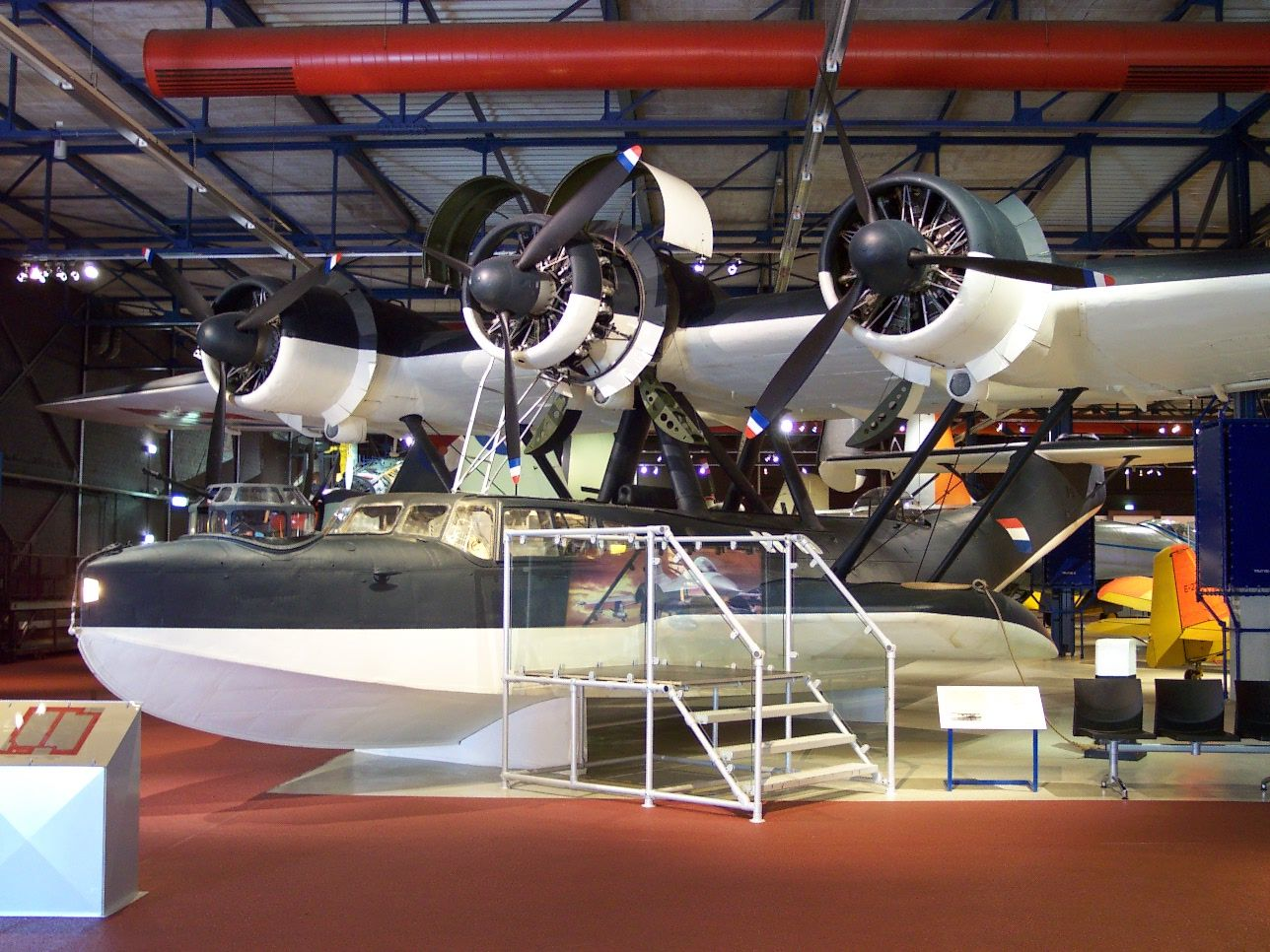 A Dornier Do 24 T-3 is on display at the Militaire Luchtvaart Museum, Soesterberg, the Netherlands.